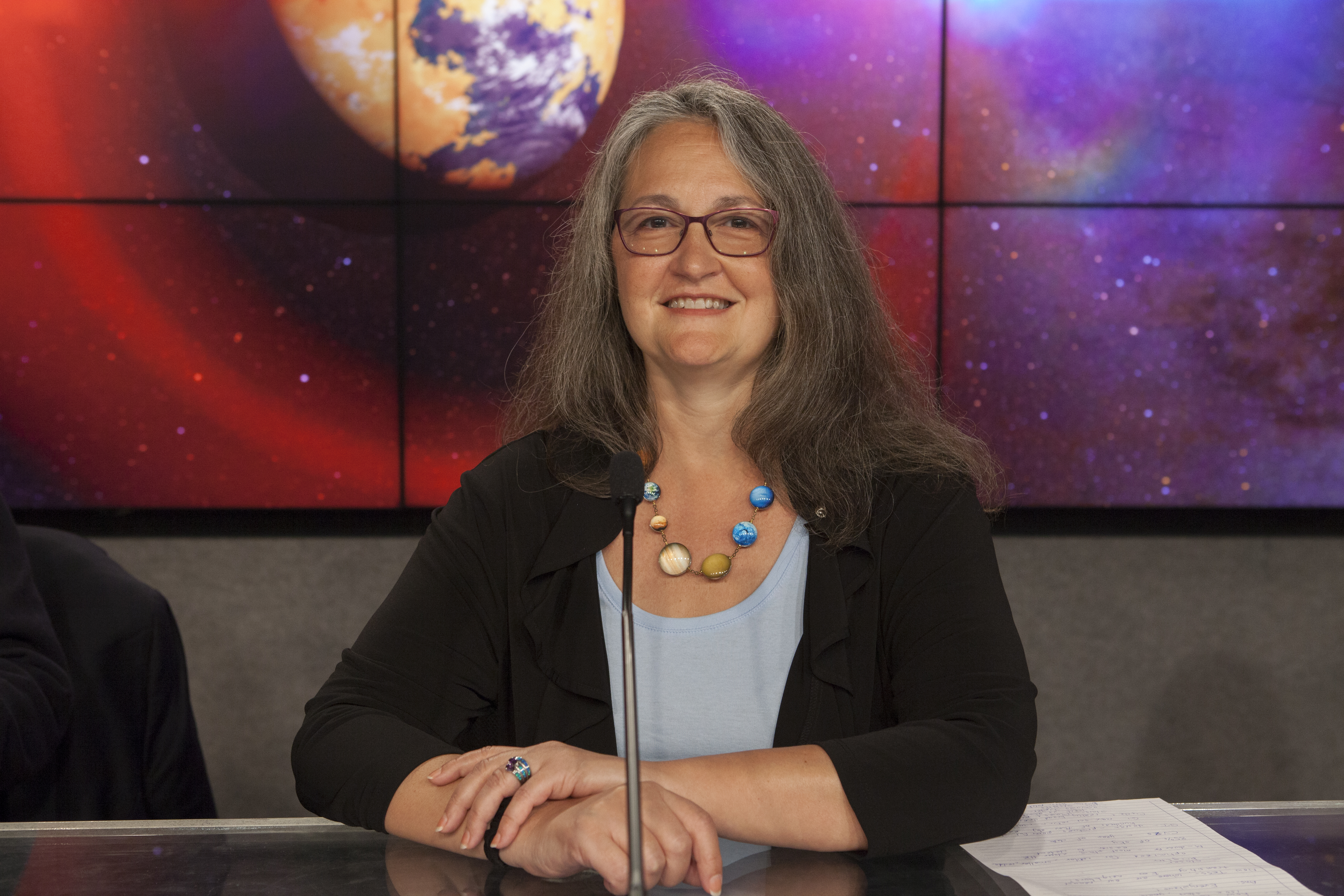 NASA and science investigators from MIT participate in a science briefing for the agency's Transiting Exoplanet Survey Satellite (TESS) in the Press Site auditorium at Kennedy Space Center in Florida. Padi Boyd, TESS Guest Investigator Program lead, NASA’s Goddard Space Flight Center, answered questions during the briefing. TESS is the next step in the search for planets outside of our solar system. The mission will find exoplanets that periodically block part of the light from their host stars, events called transits. The satellite will survey the nearest and brightest stars for two years to search for transiting exoplanets. TESS will launch on a SpaceX Falcon 9 rocket from Space Launch Complex 40 at Cape Canaveral Air Force Station no earlier than 6:32 p.m. EDT on Monday, April 16.